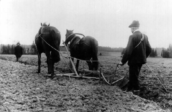 Iron ploughs were introduced in Estonia in the 1870s; pulled by two horses, the plough could get two acres a day. Tartumaa, 1913.